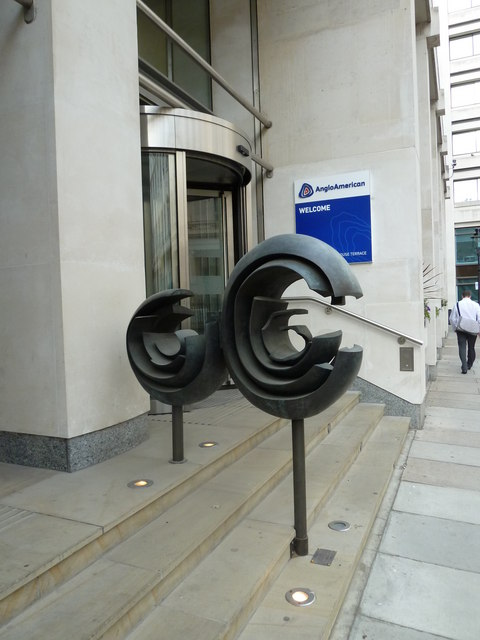 20 Carlton House Terrace, London